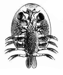 Argulus foliaceus Permission granted to use under GFDL by Kurt Stueber. - Permission is granted to copy, distribute and/or modify this image under the terms of the GNU Free Documentation License, Version 1.3 or any later version published by the Free Software Foundation